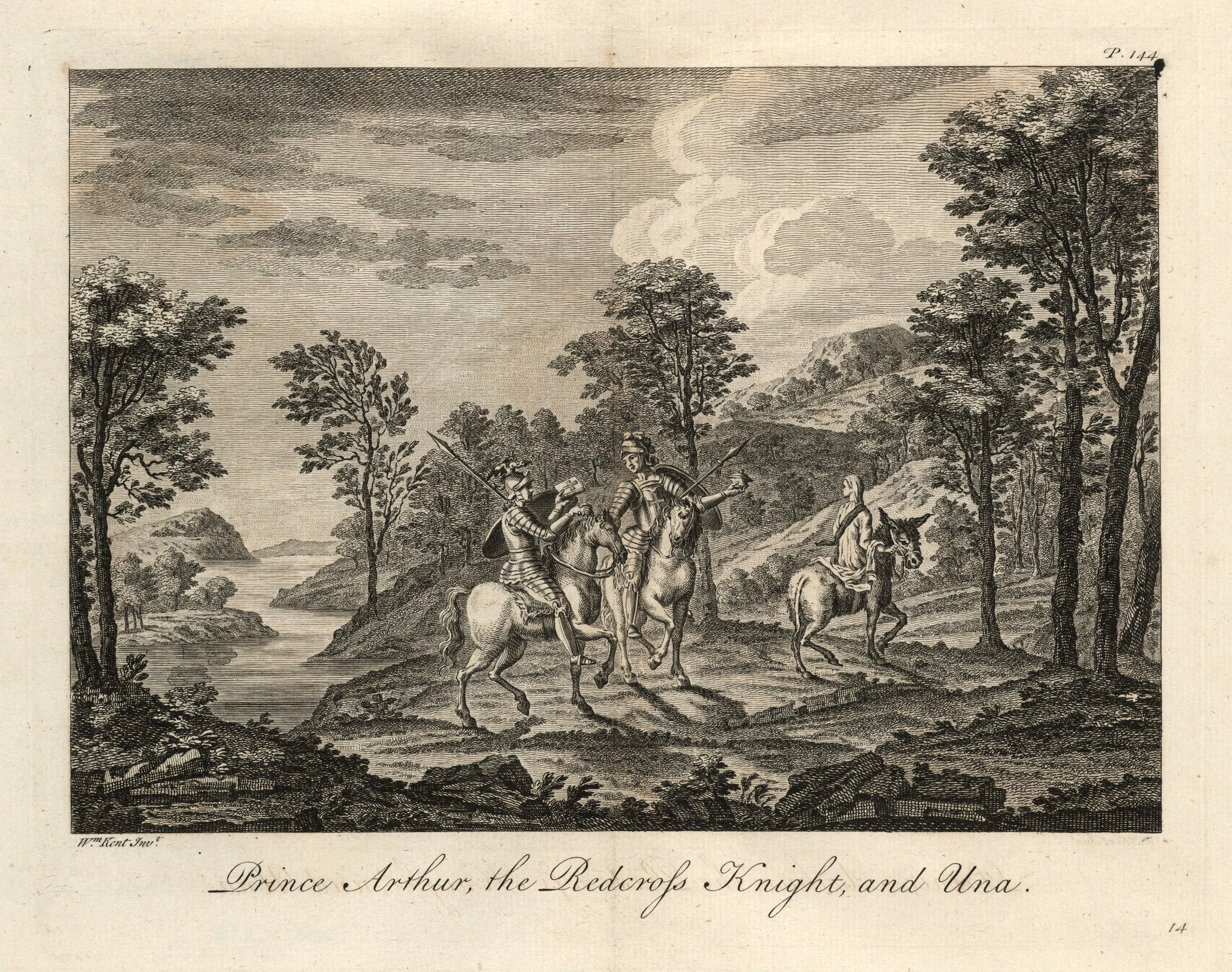 Illustration: "Prince Arthur, the Redcross Knight, and Una," plate between pp.144-145. From The Faerie Queene, London: 1751, by Edmund Spenser (c. 1552-1599). 63-2196, Houghton Library, Harvard University